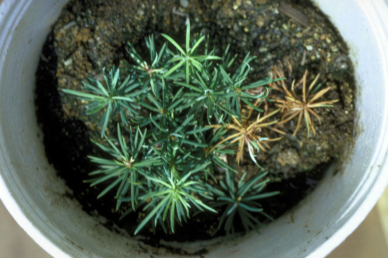 Fusarium cortical stem rot (Symptoms) Fusarium avenaceum (Corda) Sacc. post-emergence symptoms, nursery pest Image location: United States This image contains digital watermarking or credits in the image itself. The usage of visible watermarks is discouraged. If a non-watermarked version of the image is available, please upload it under the same file name and then remove this template. Ensure that removed information is present in the image description page and replace this template with metadata from image or attribution metadata from licensed image . Caution: Before removing a watermark from a copyrighted image, please read the WMF's analysis of the legal ramifications of doing so, as well as Commons' proposed policy regarding watermarks. If the old version is still useful, for example if removing the watermark damages the image significantly, upload the new version under a different title so that both can be used. After uploading the non-watermarked version, replace this template with superseded|new filename|version without watermarks .